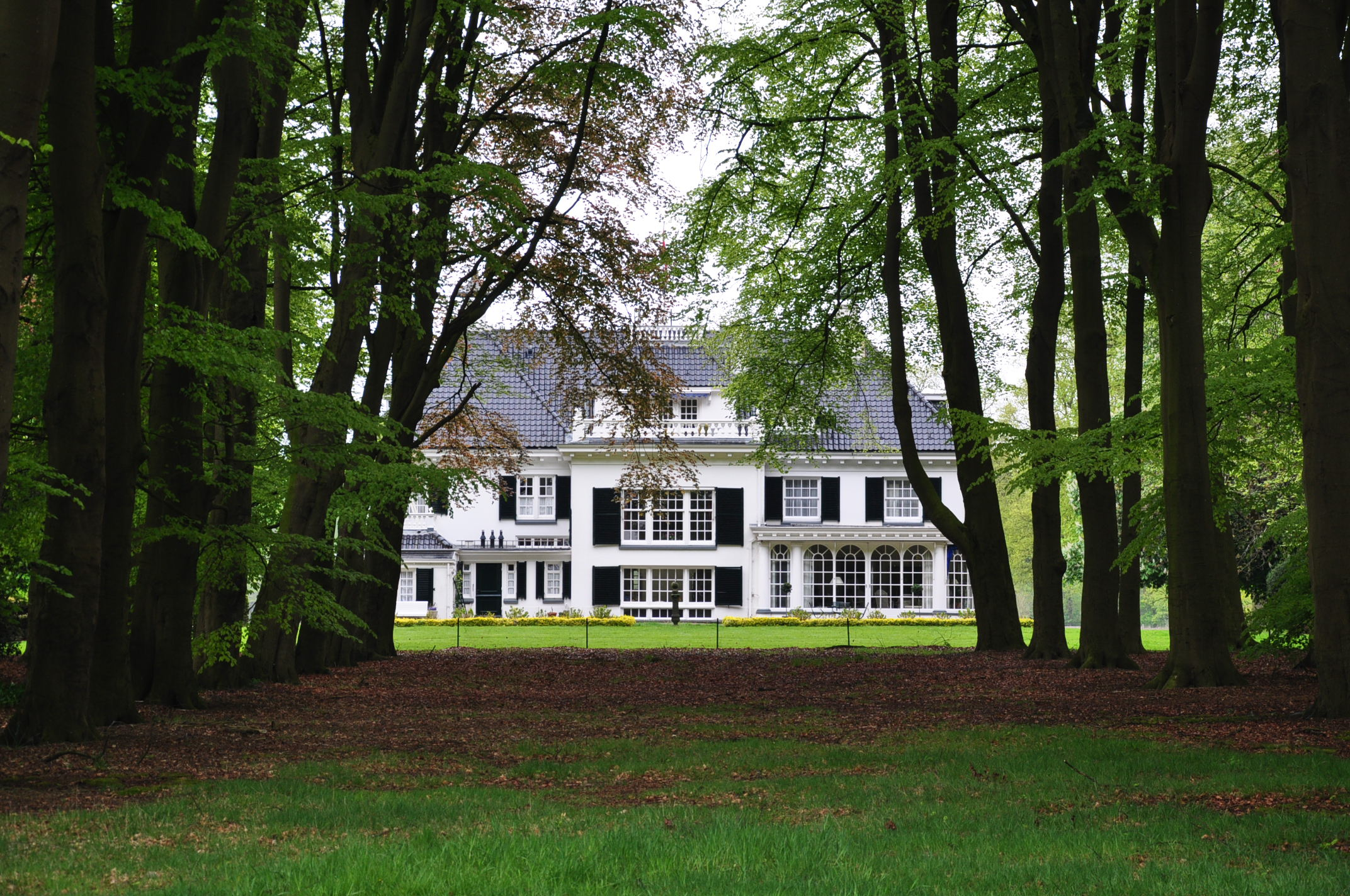 Zonnebeek Mansion/Estate was built in 1907 by the Dutch textile family Van Heek and is situated near Enschede in the eastern part of the Netherlands (Province Overijssel). The rear side is shown.